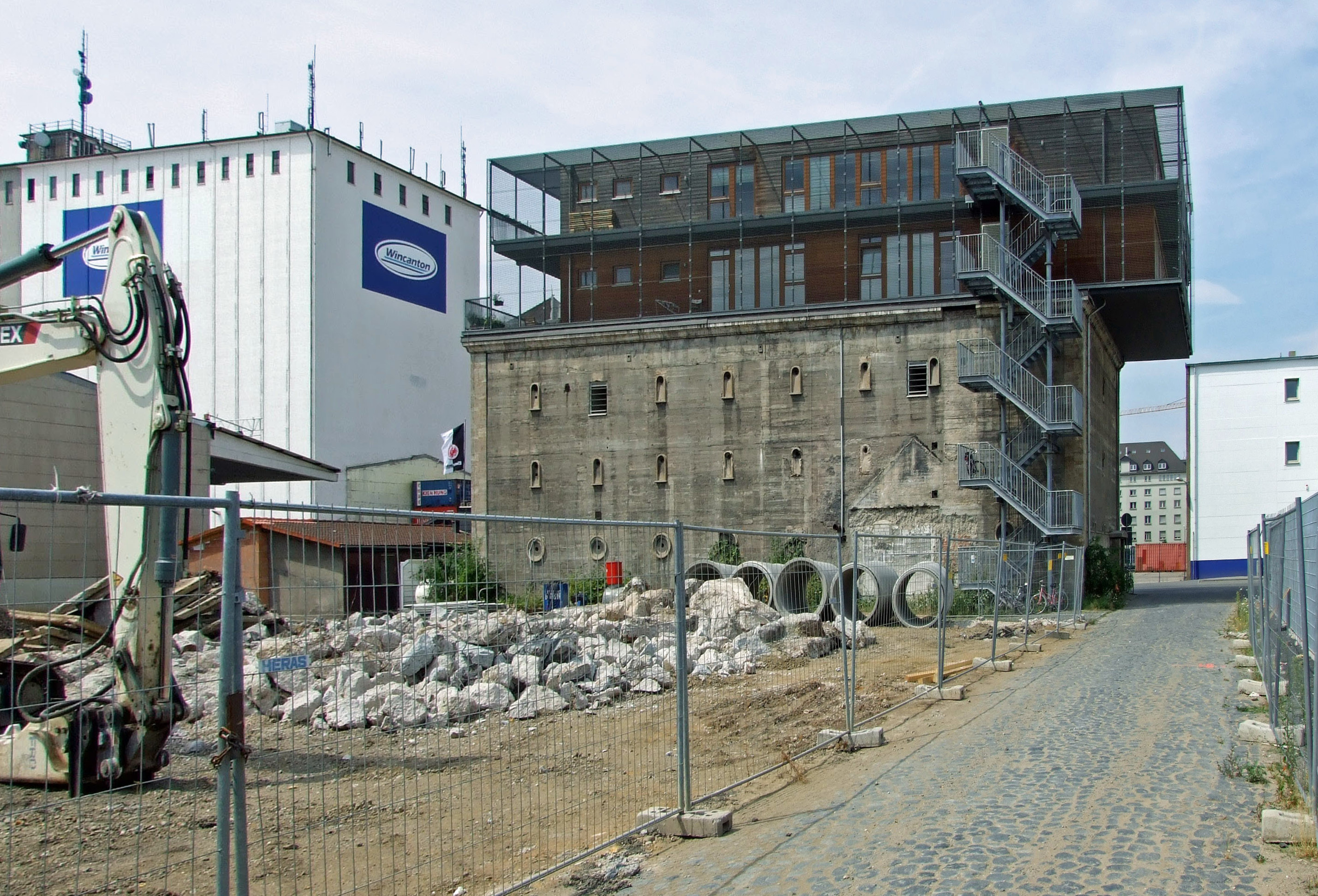 The Musikbunker. 2008 at habour (Osthafen) in Frankfurt am Main Ostend